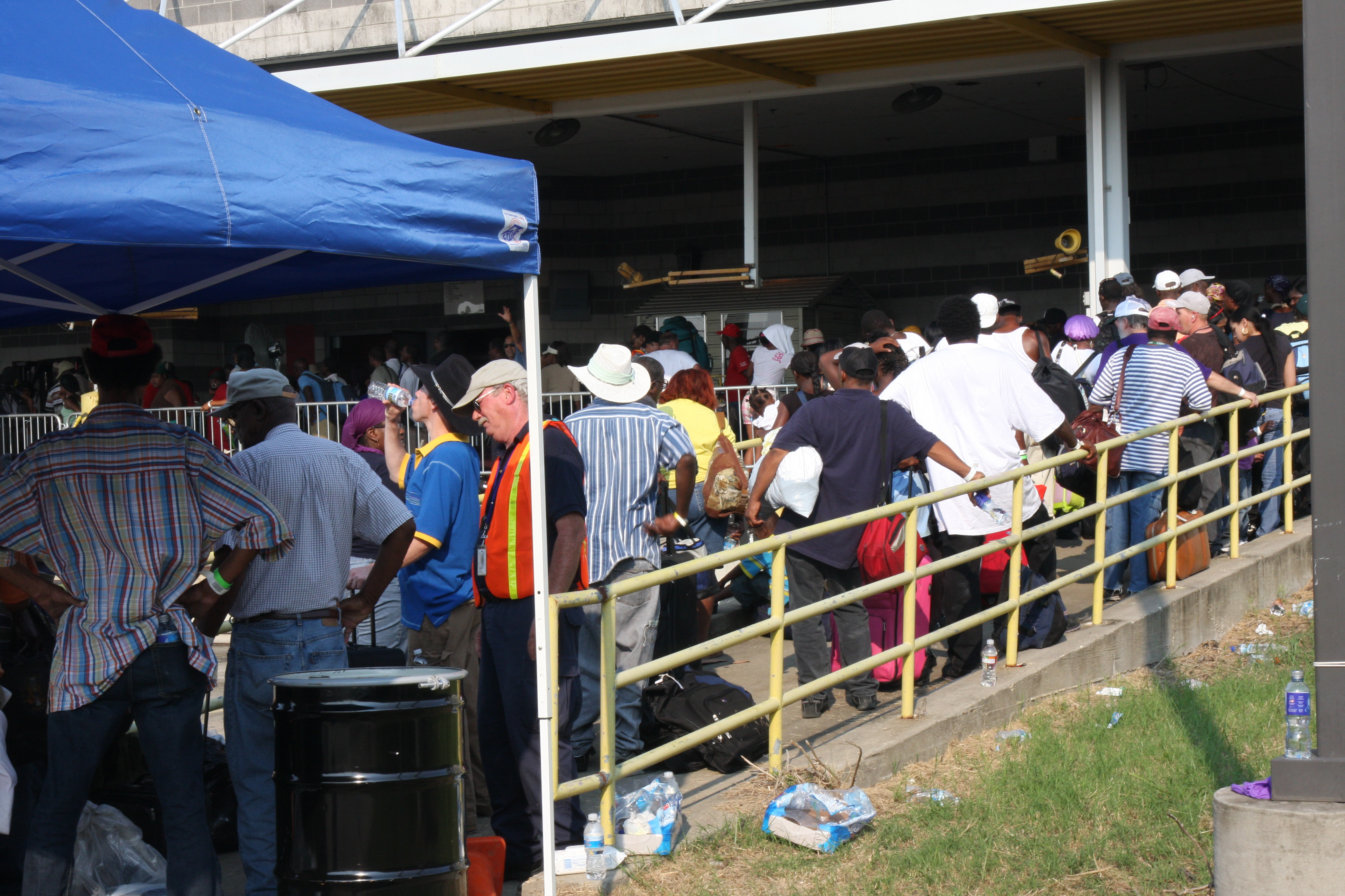 New Orleans, LA, August 30, 2008 -- Evacuees wait in the hot sun and heat, in long lines, to the check-in areas for flight departures. Jacinta Quesada/FEMA